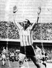 Humberto Maschio celebrating a goal for Racing Club in the second leg of the Copa Intercontinental vs Celtic.